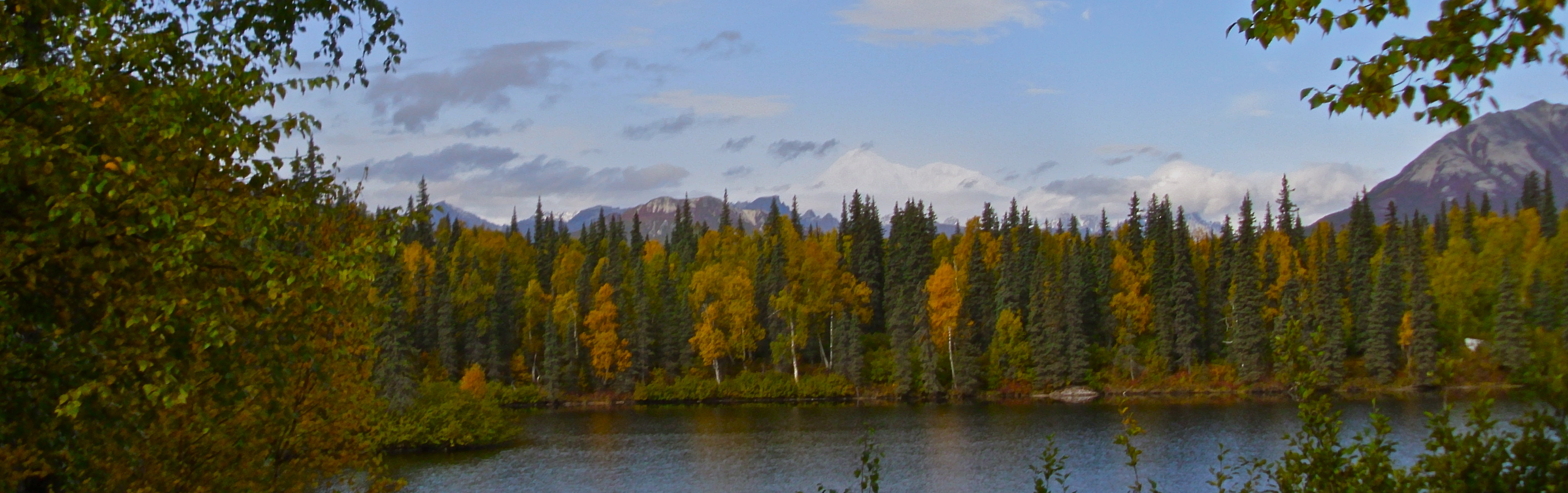 Taken at Byers Lake, Denali State Park, Alaska. The white peak that is faintly visible in the background is Denali itself